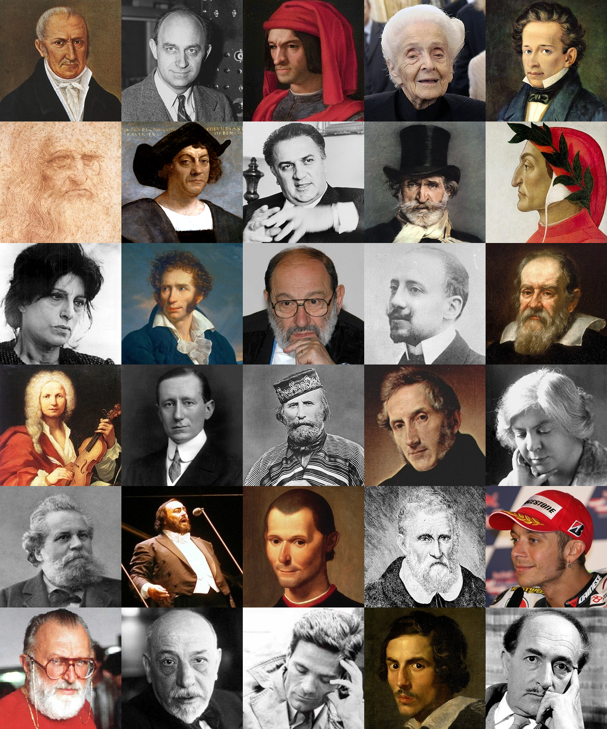 Mosaic of 30 famous Italians. First row, left to right: Alessandro Volta, physicist and inventor; Enrico Fermi, physicist and inventor, 1938 Nobel laureate; Lorenzo de Medici, politician and patron of artists; Rita Levi-Montalcini, neurologist and researcher, 1986 Nobel laureate; Giacomo Leopardi, poet and philosopher. Second row, left to right: Leonardo da Vinci, mathematician, physicist, inventor, painter, architect and engineer; Christopher Columbus, explorer and navigator; Federico Fellini, film director and scriptwriter; Giuseppe Verdi, composer; Dante Alighieri, poet and political theorist. Third row, left to right: Anna Magnani, actress; Ugo Foscolo, poet and revolutionary; Umberto Eco, philosopher and novelist; Gabriele D'Annunzio, poet, journalist, novelist and dramatist; Galileo Galilei, physicist and astronomer. Fourth row, left to right: Antonio Vivaldi, composer and violinist; Guglielmo Marconi, physicist, engineer and inventor, 1909 Nobel laureate; Giuseppe Garibaldi, general and politician; Alessandro Manzoni, poet and novelist; Grazia Deledda, writer and novelist, 1926 Nobel laureate. Fifth row, left to right: Giosuè Carducci, poet and teacher, 1906 Nobel laureate; Luciano Pavarotti, operatic tenor; Niccolò Machiavelli, historian, diplomat, philosopher, humanist and writer; Marco Polo, explorer and merchant; Valentino Rossi, motorcycle racer, multiple MotoGP World Champion. Sixth row, left to right: Sergio Leone, film director, producer and screenwriter; Luigi Pirandello, dramatist and novelist, 1934 Nobel laureate; Pier Paolo Pasolini, film director, poet, writer and intellectual; Gian Lorenzo Bernini, sculptor, architect and painter; Salvatore Quasimodo, author and poet, 1959 Nobel laureate.